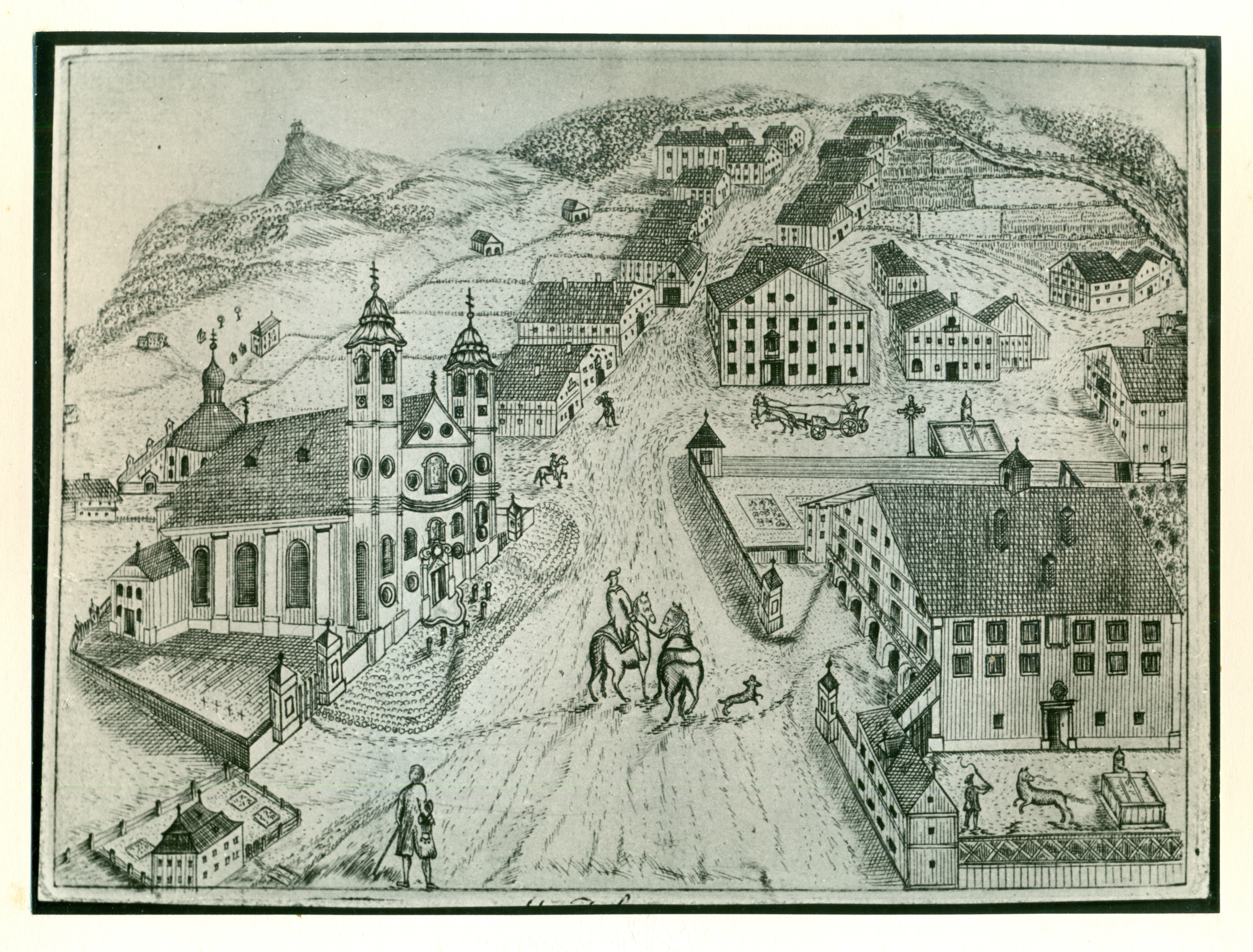 St. Johann in Tirol 1750, historical engraving